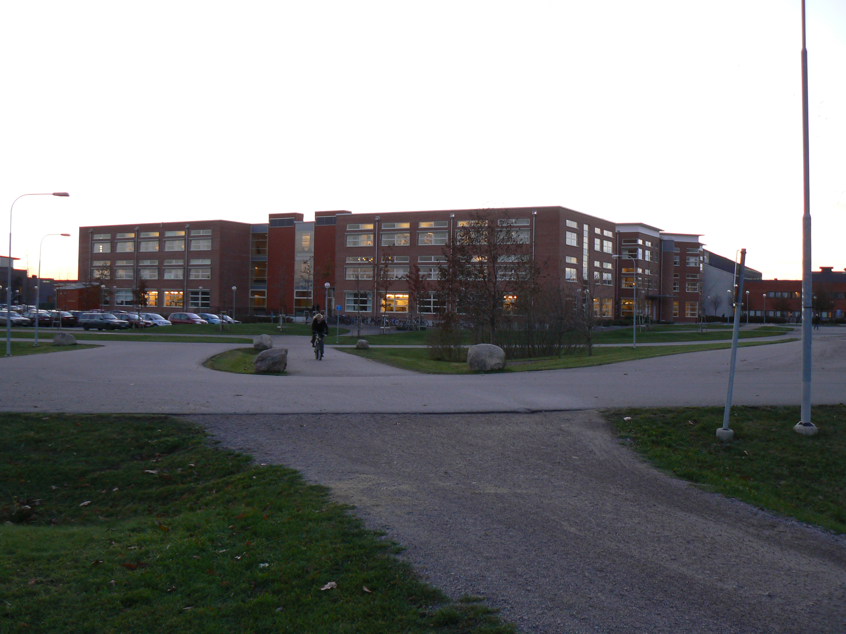 The "Key-building" at Linköping University.